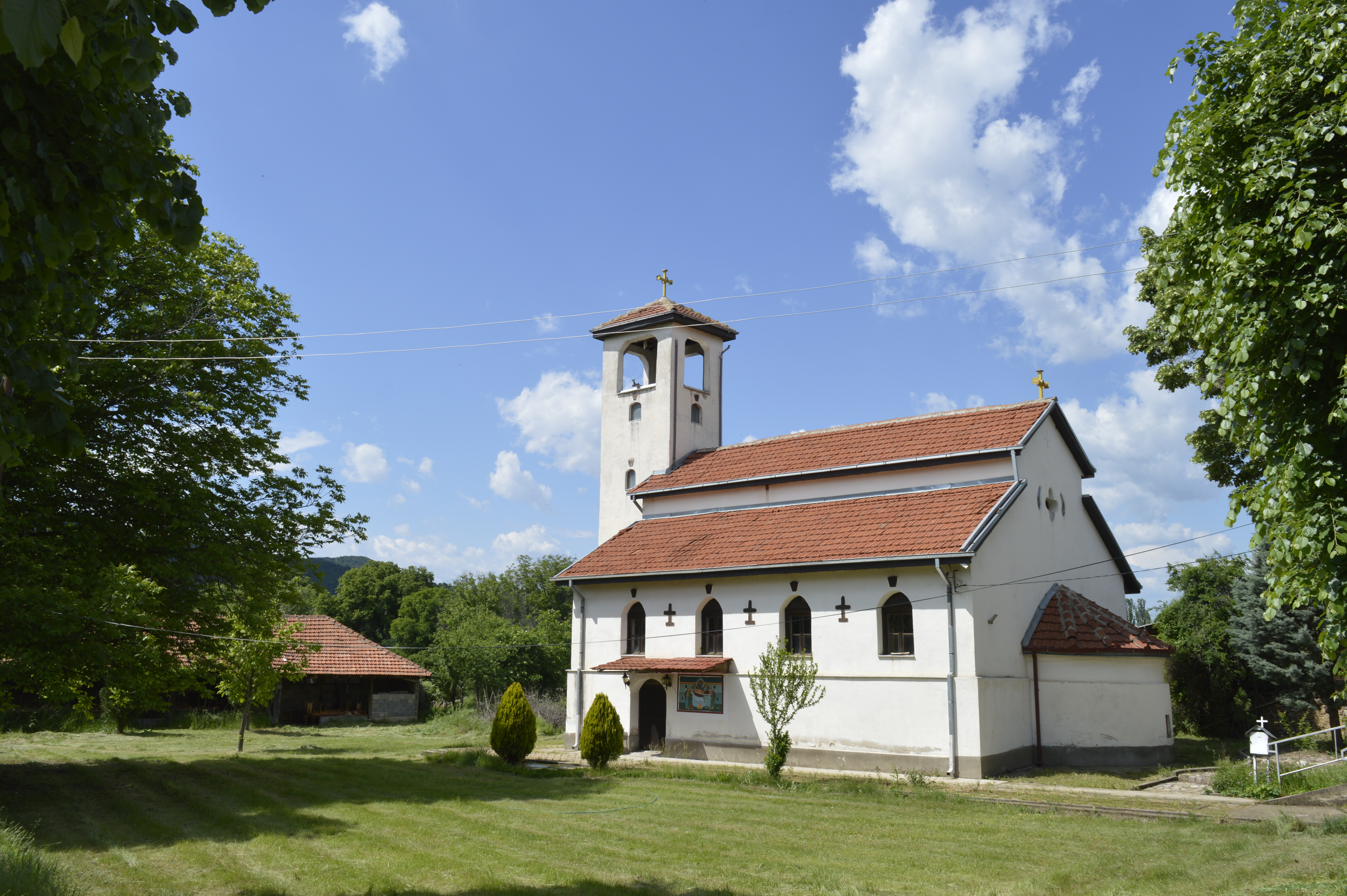 View of Dormition of the Theotokos Church in the village Trabotivište